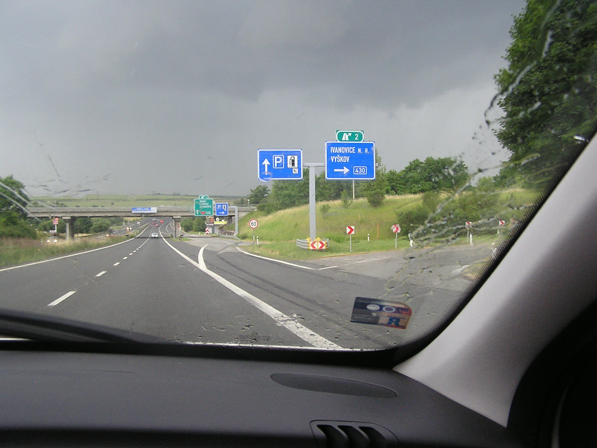 impact absorber